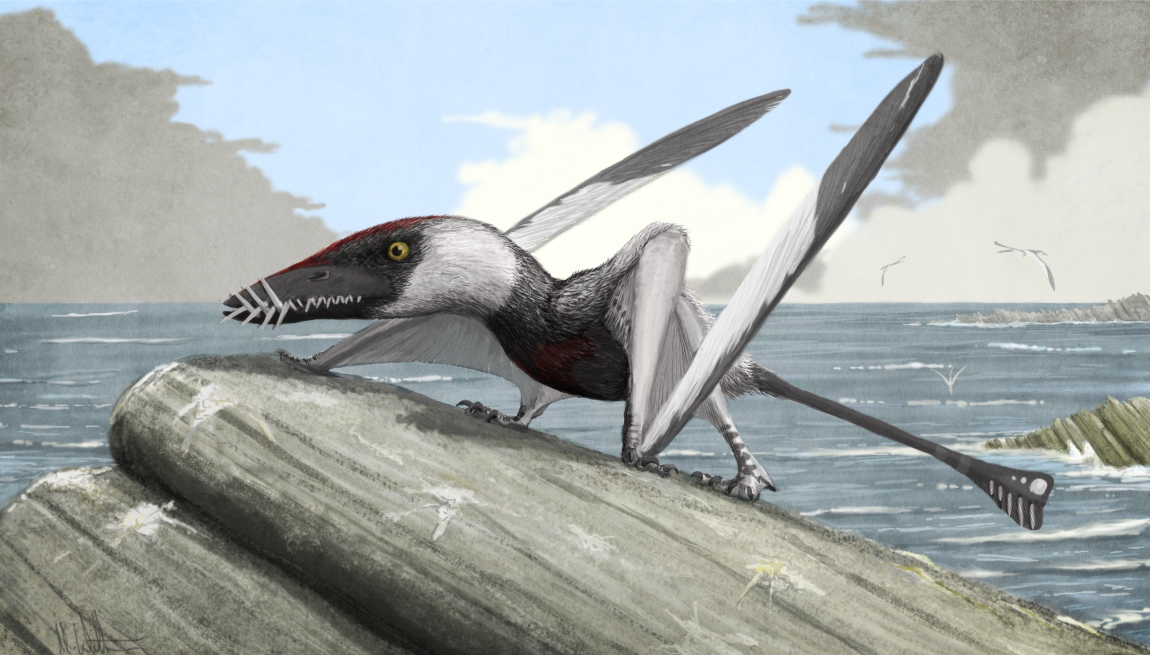 life restoration of the Early Jurassic rhamphorhynchine Dorygnathus banthensis with obligated crouching, somewhat sprawled forelimbs